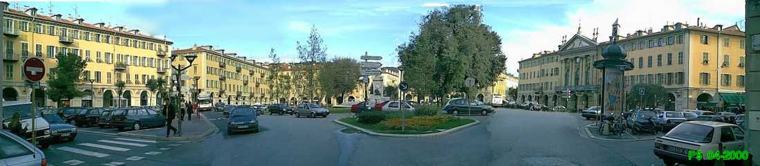 Icones for Nikaia visit